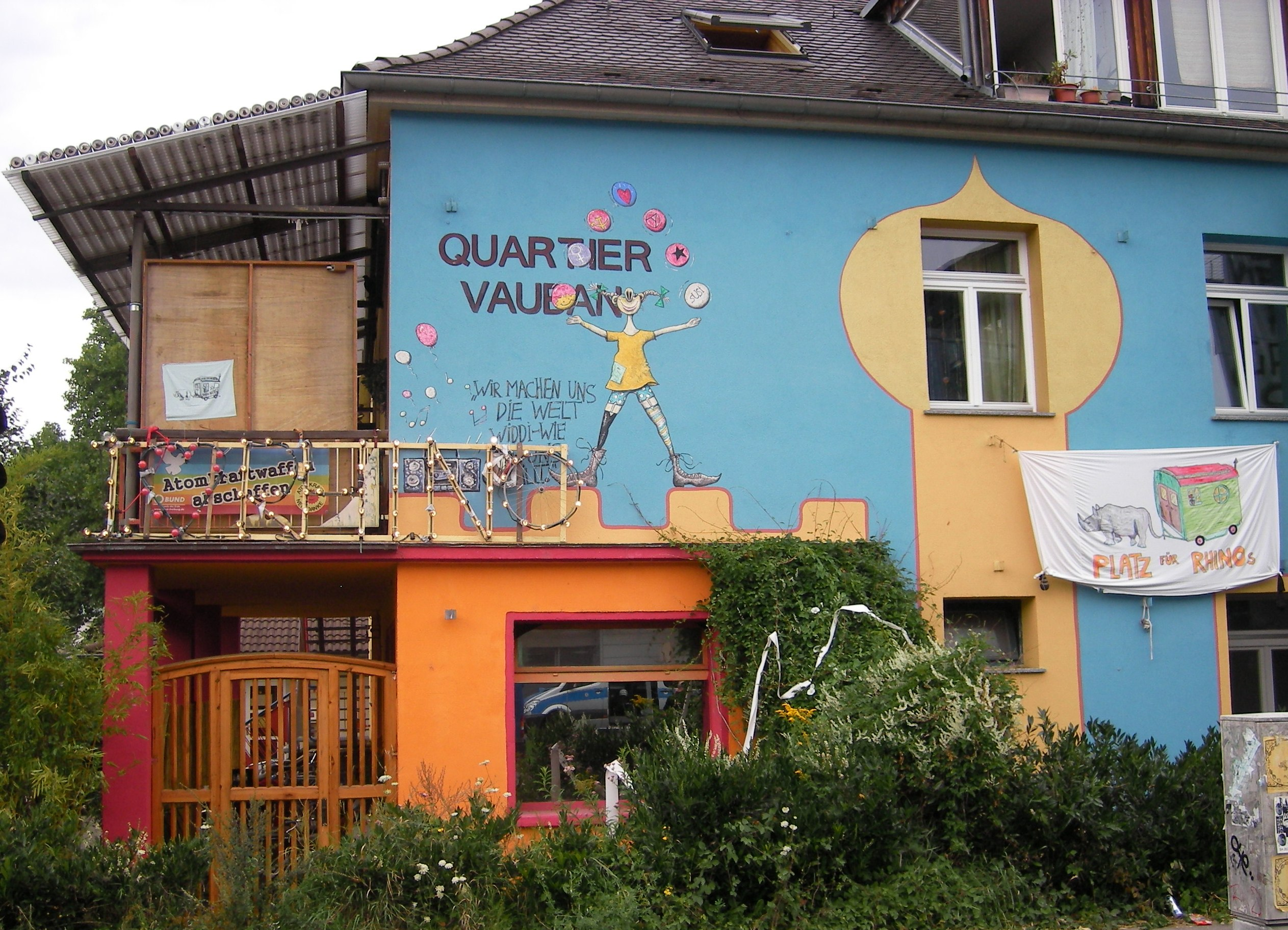 Susi Freiburg Vauban